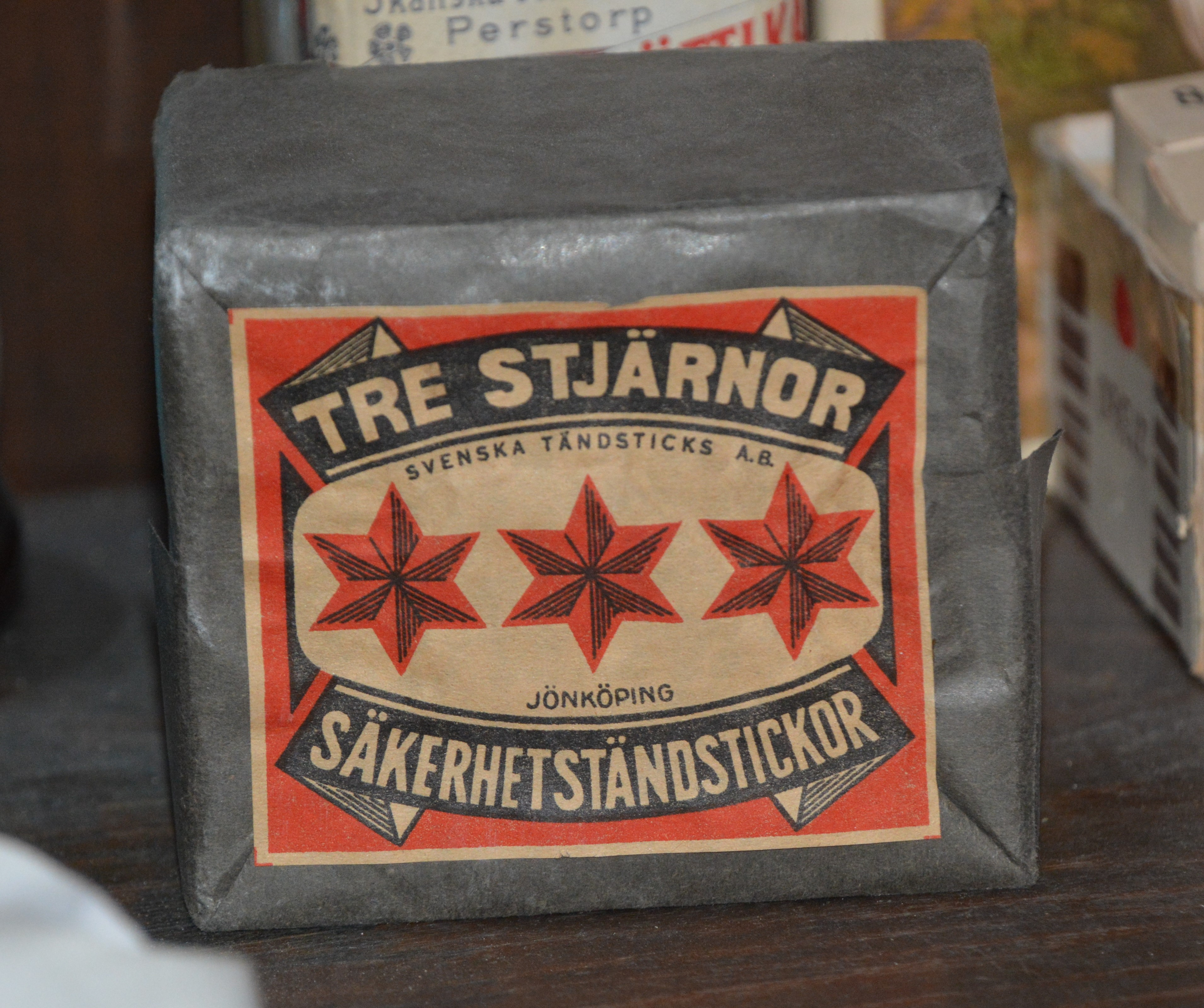 Swedish matches "Tre sjärnor"